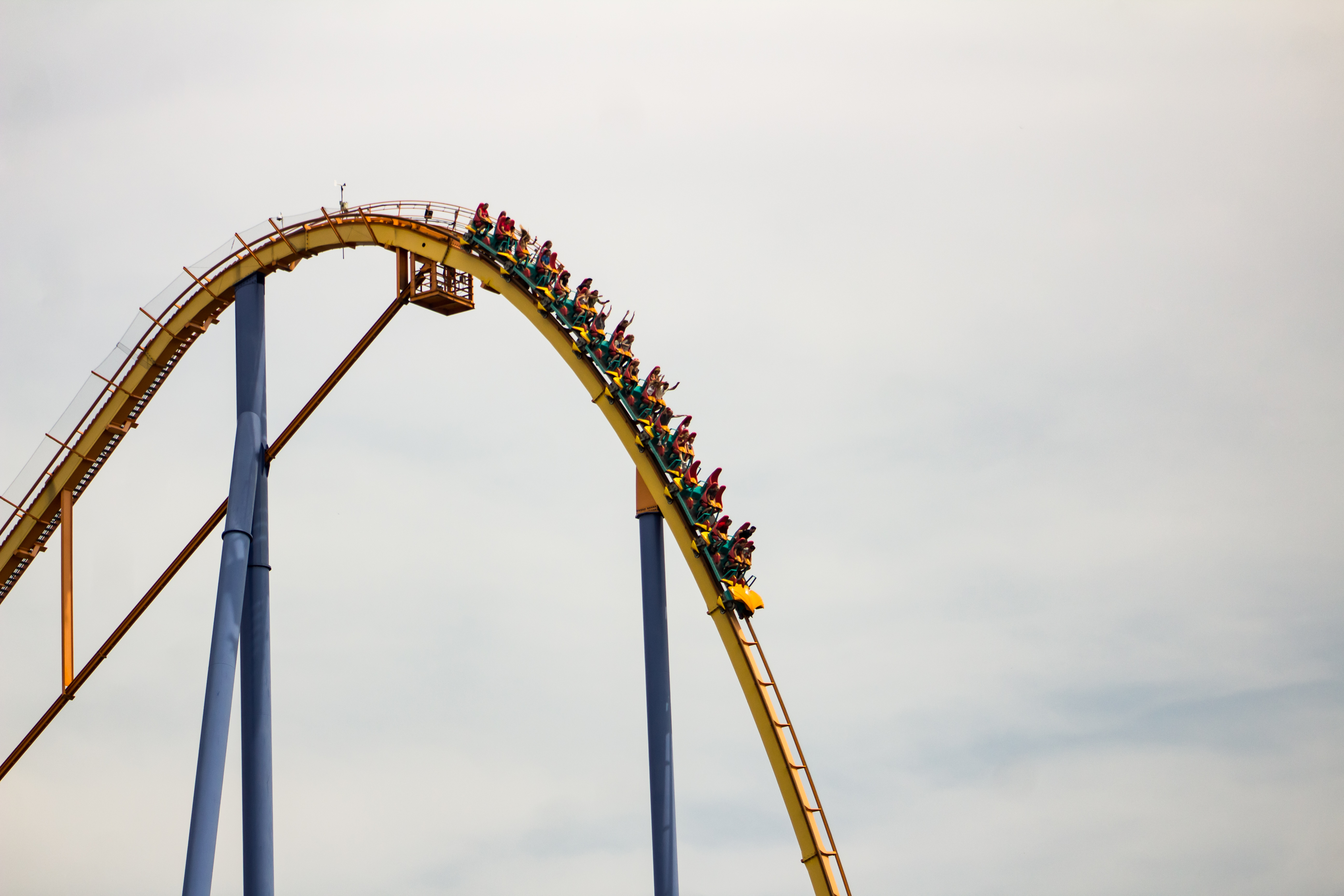 A roller coaster car on the Behemoth in Canada's Wonderland, Vaughan.